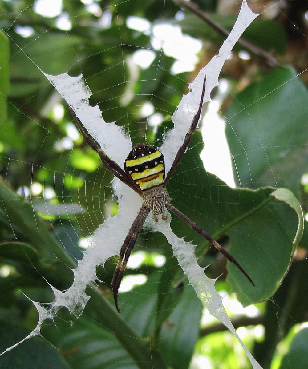 Argiope keyserlingi - St Andrew's Cross spider